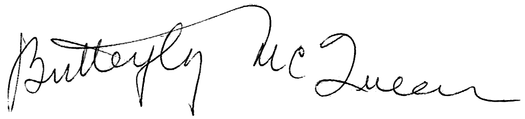 A circa 1980 signature of American actress Thelma "Butterfly" McQueen.